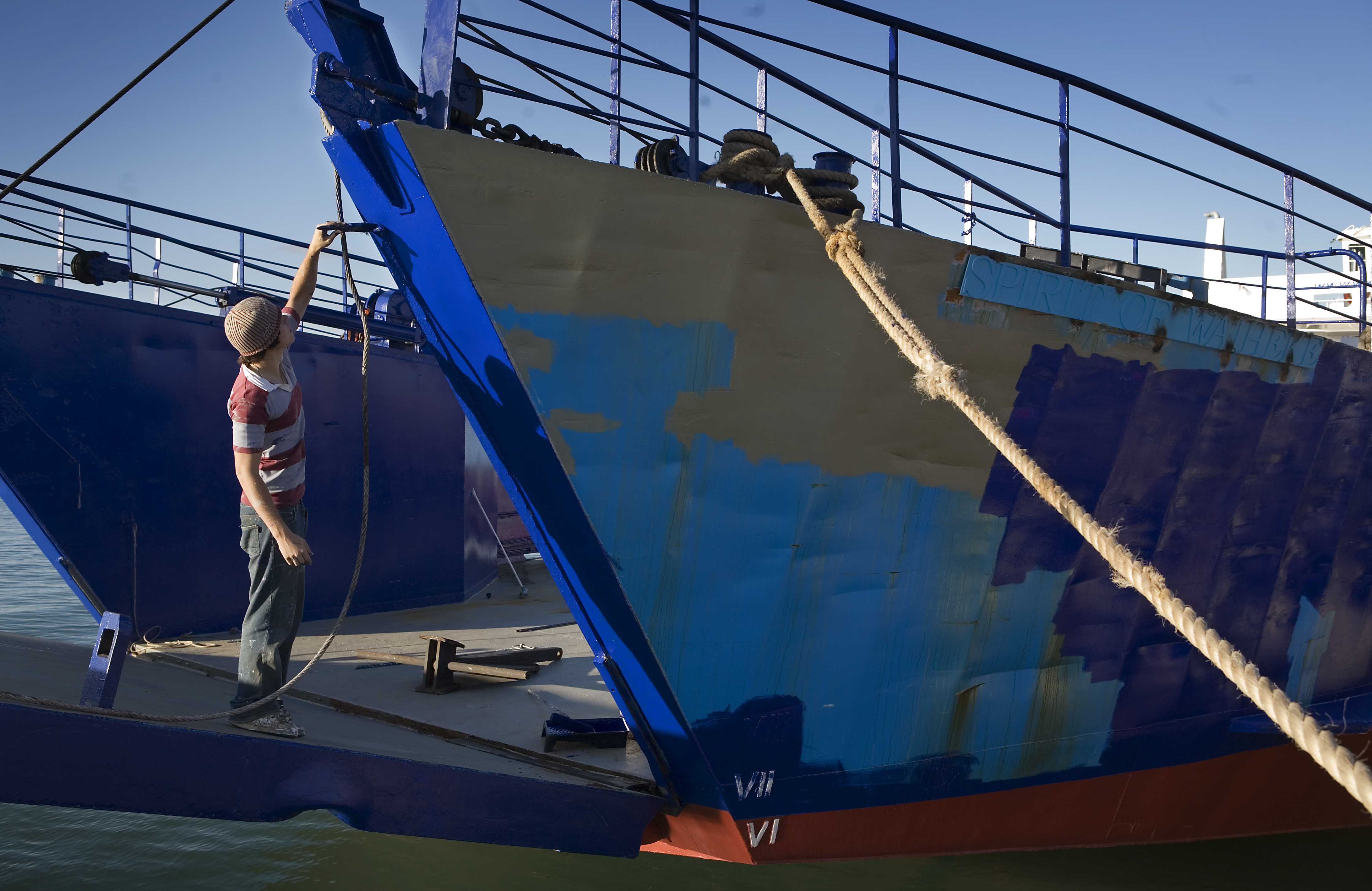 A dock worker painting a ship's hull, Auckland, New Zealand